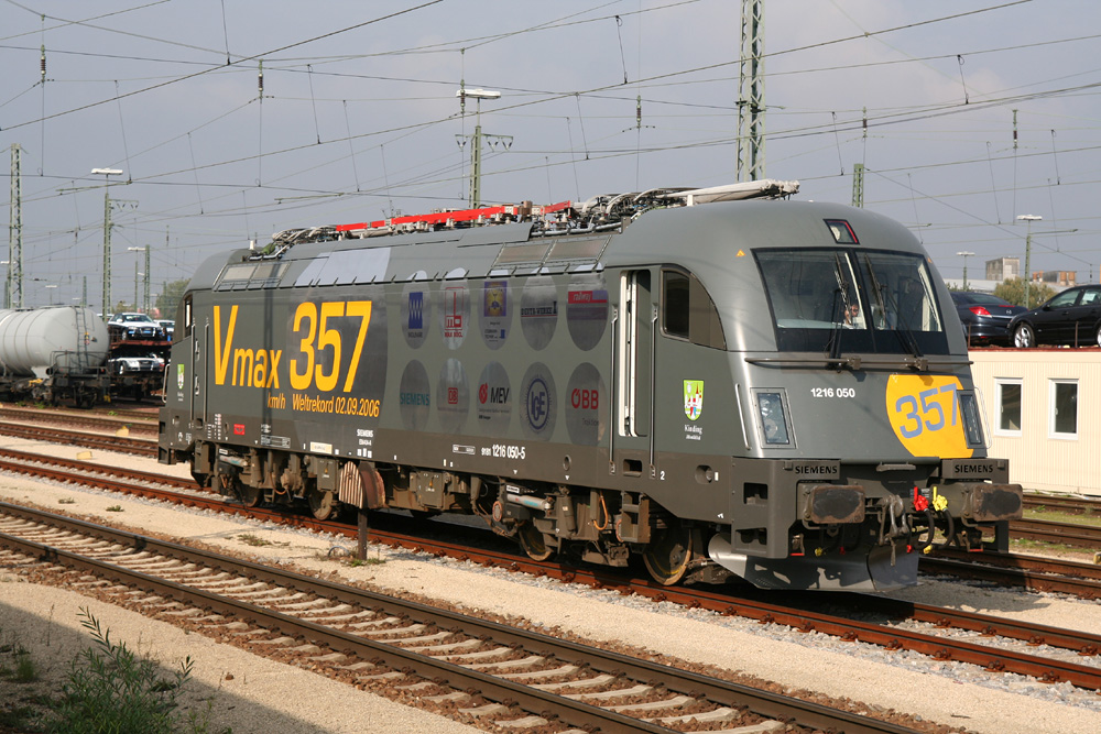 The world-record locomotive, ÖBB 1216 050-5, at the main station of Ingolstadt. On September 2nd, 2006, this locomotive set a new world record of 357 km/h for locomotives.